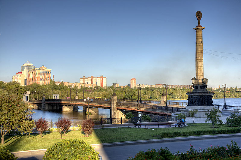 Embankment of Kalmius